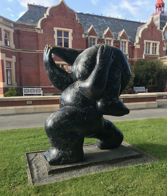 "Joy of Living" by Llewelyn Summers (1992) outside Ivey Hall, Lincoln University, New Zealand